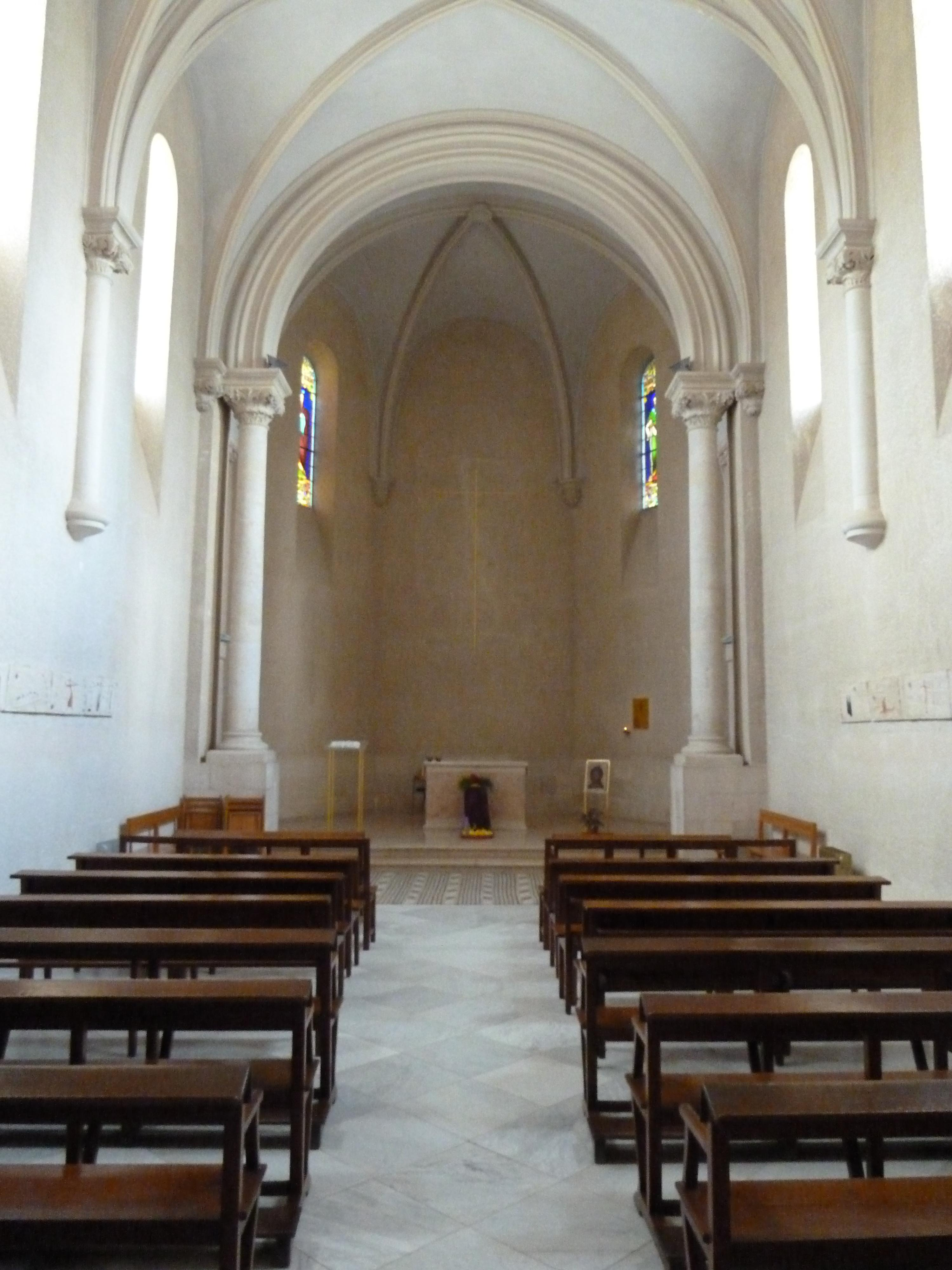 Ein Karem Notre-Dame de Sion church interior